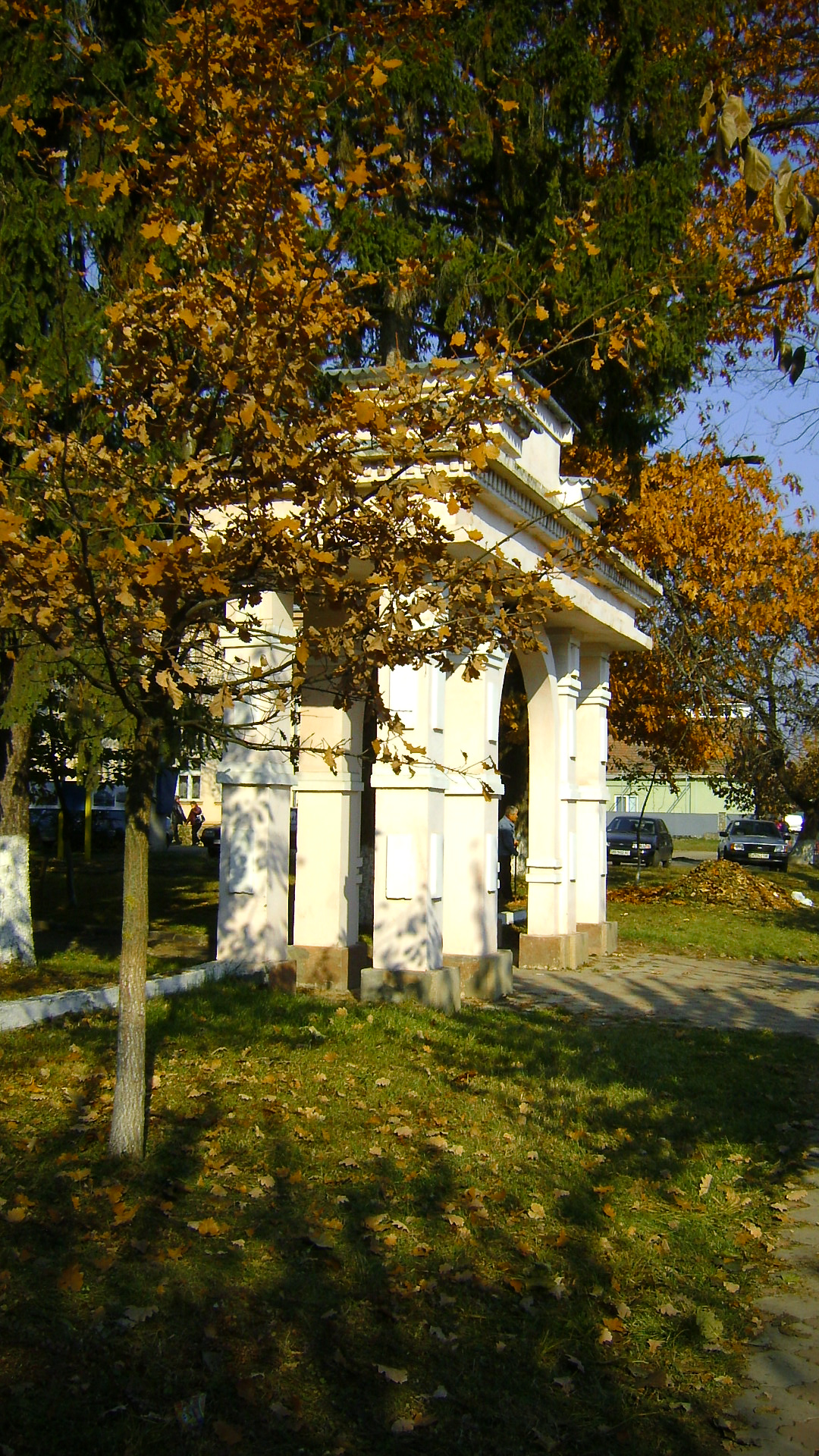 Triumphal Arch in Irshava